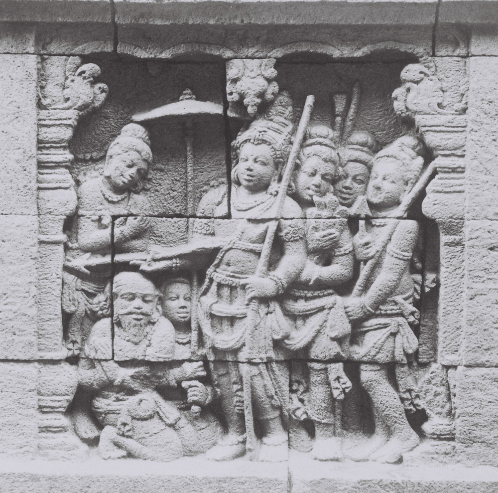 Relief panel "Çudda-bodhi-jataka 2", Borobudur, Central-Java.